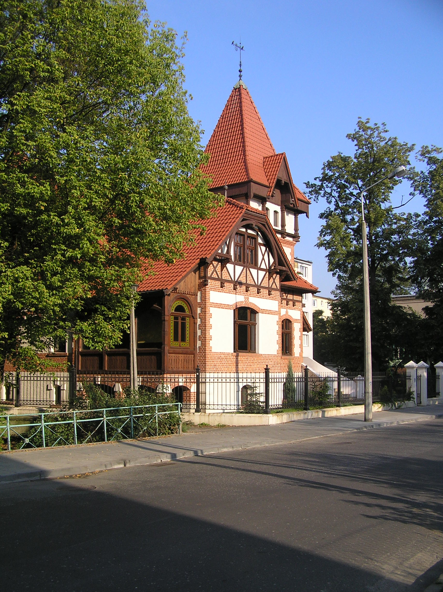 Toruń, villa at 5 Batorego Str., 1903